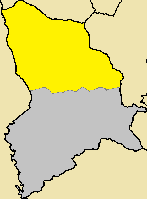 Kourdali in Spilia.